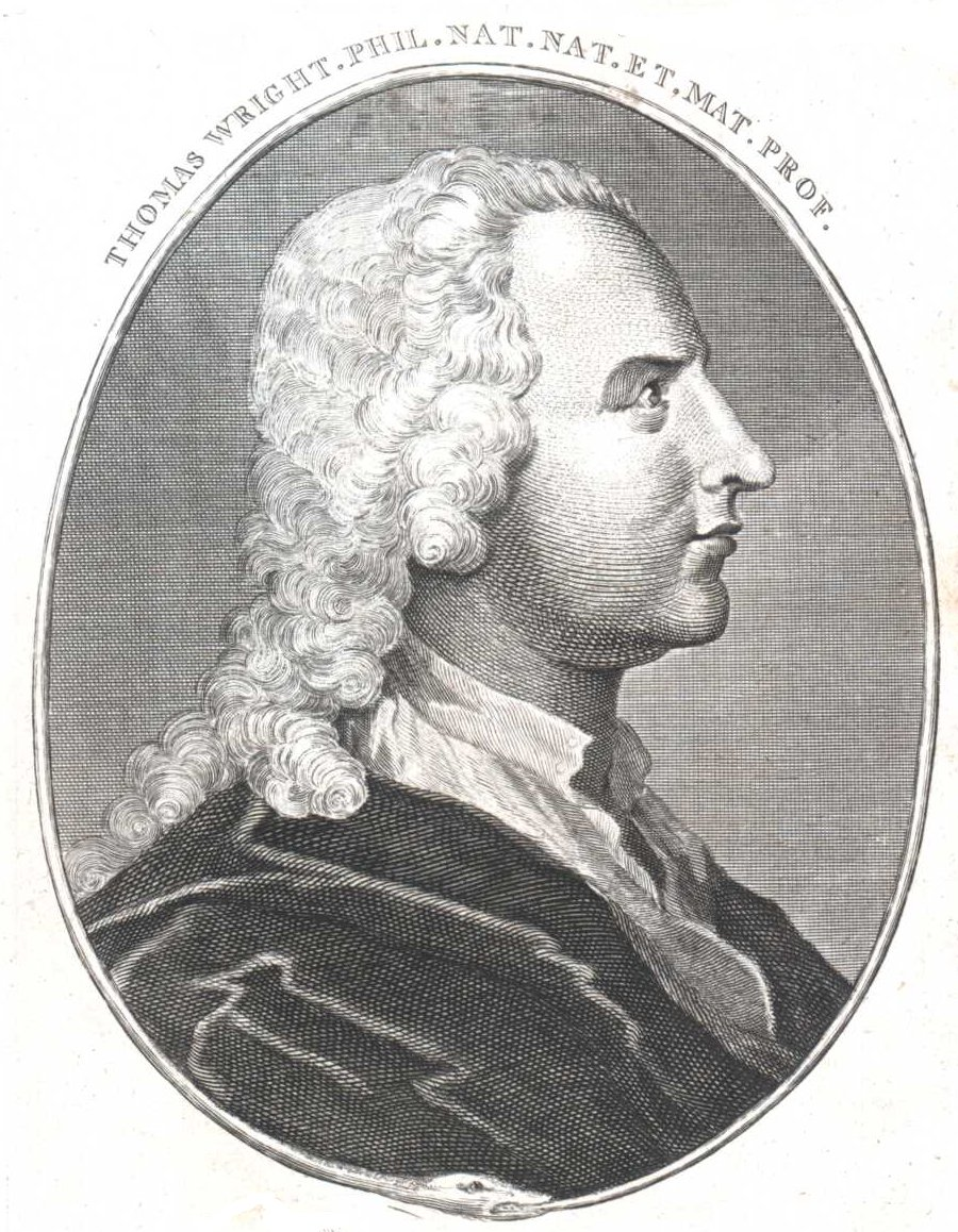 Thomas Wright, astronomer, The Gentleman's Magazine, 1793, Volume 73, p. 9.